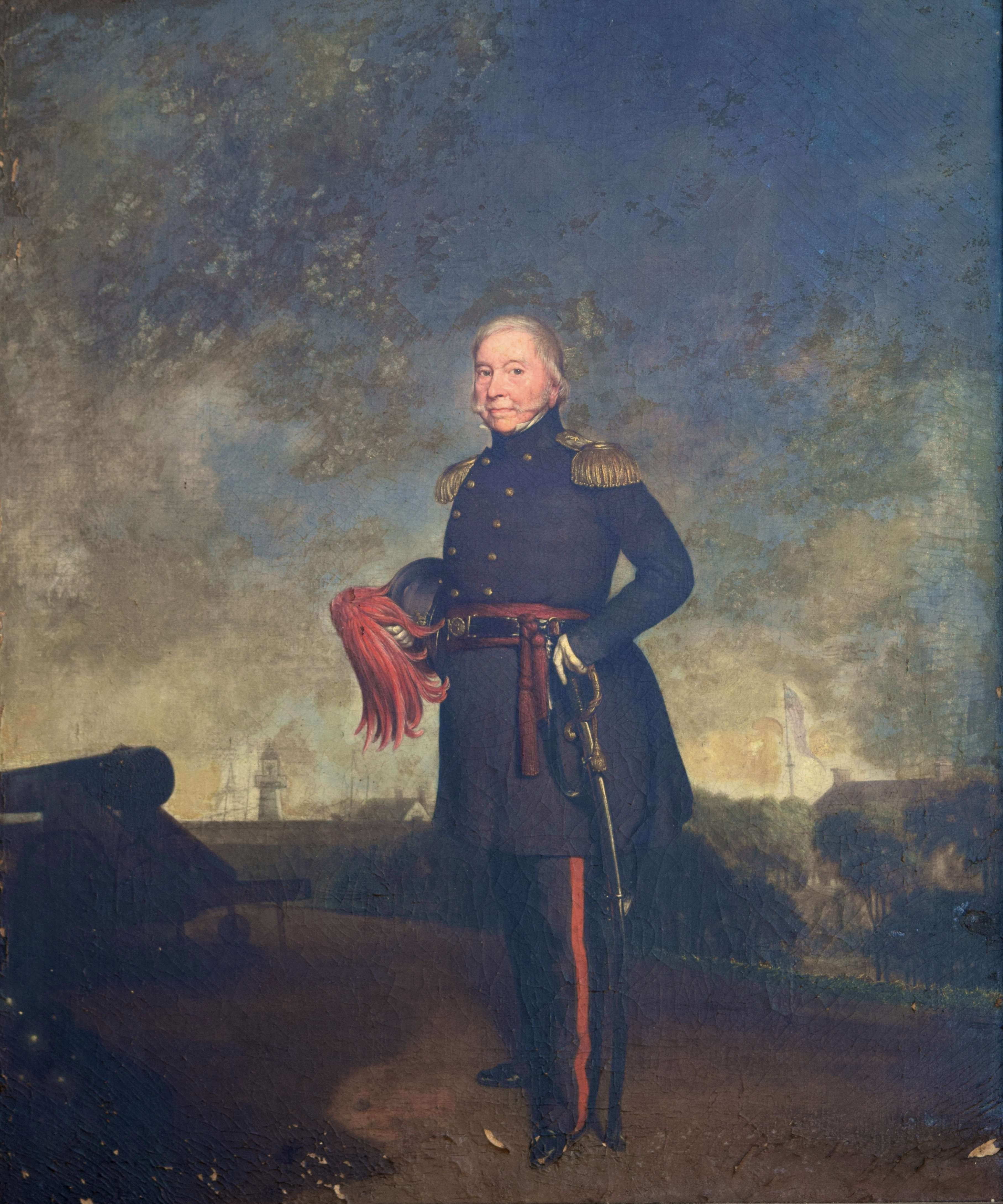 Painting of Gen. John de Barth Walbach, Fort Monroe, Old Point Comfort, VA, 1846